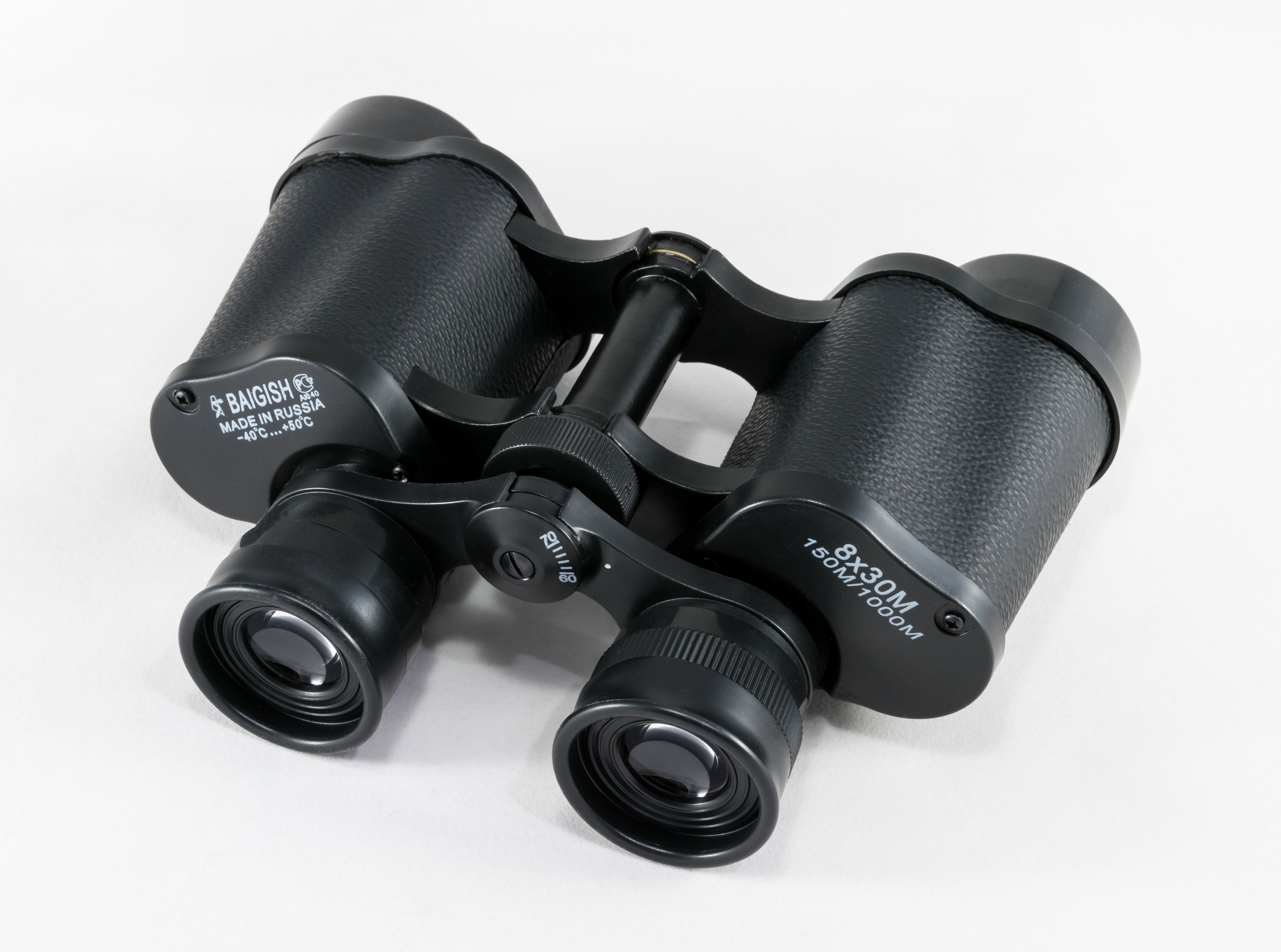 Baigish binocular 8x30